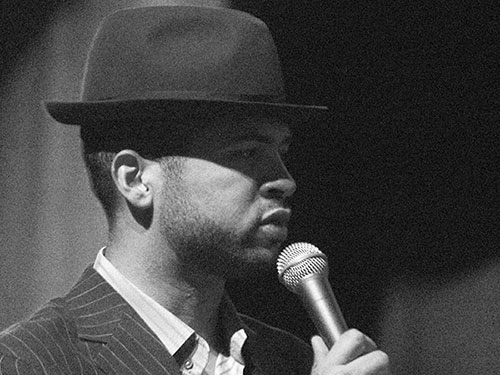 Jason Moran in Aarhus, Denmark